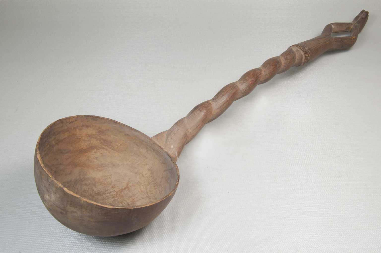 Ladle